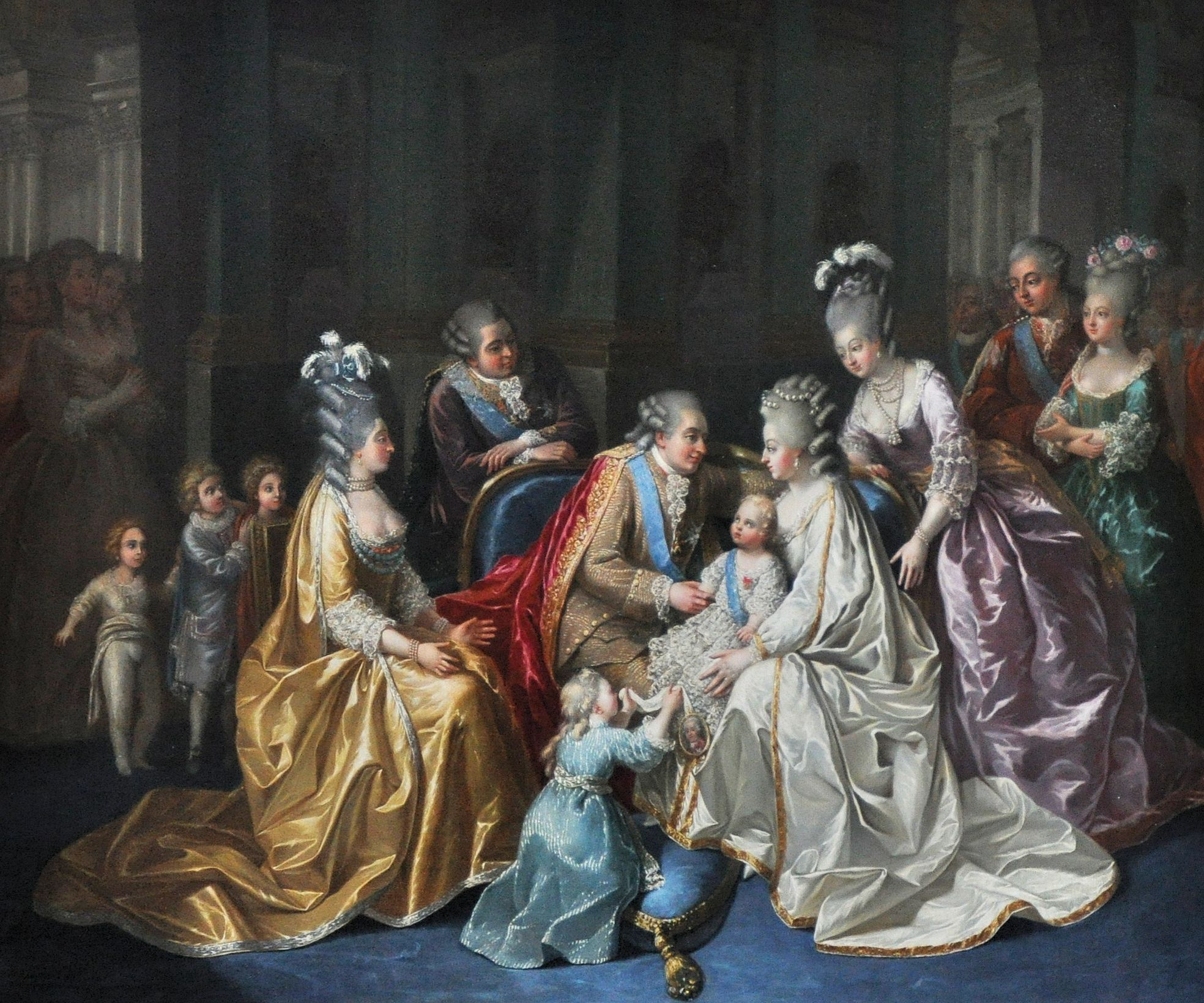 The Royal family around Louis Joseph, Dauphin of France, in 1782From the Juigné collections, acquired in 1995 by the Société des amis de Versailles.